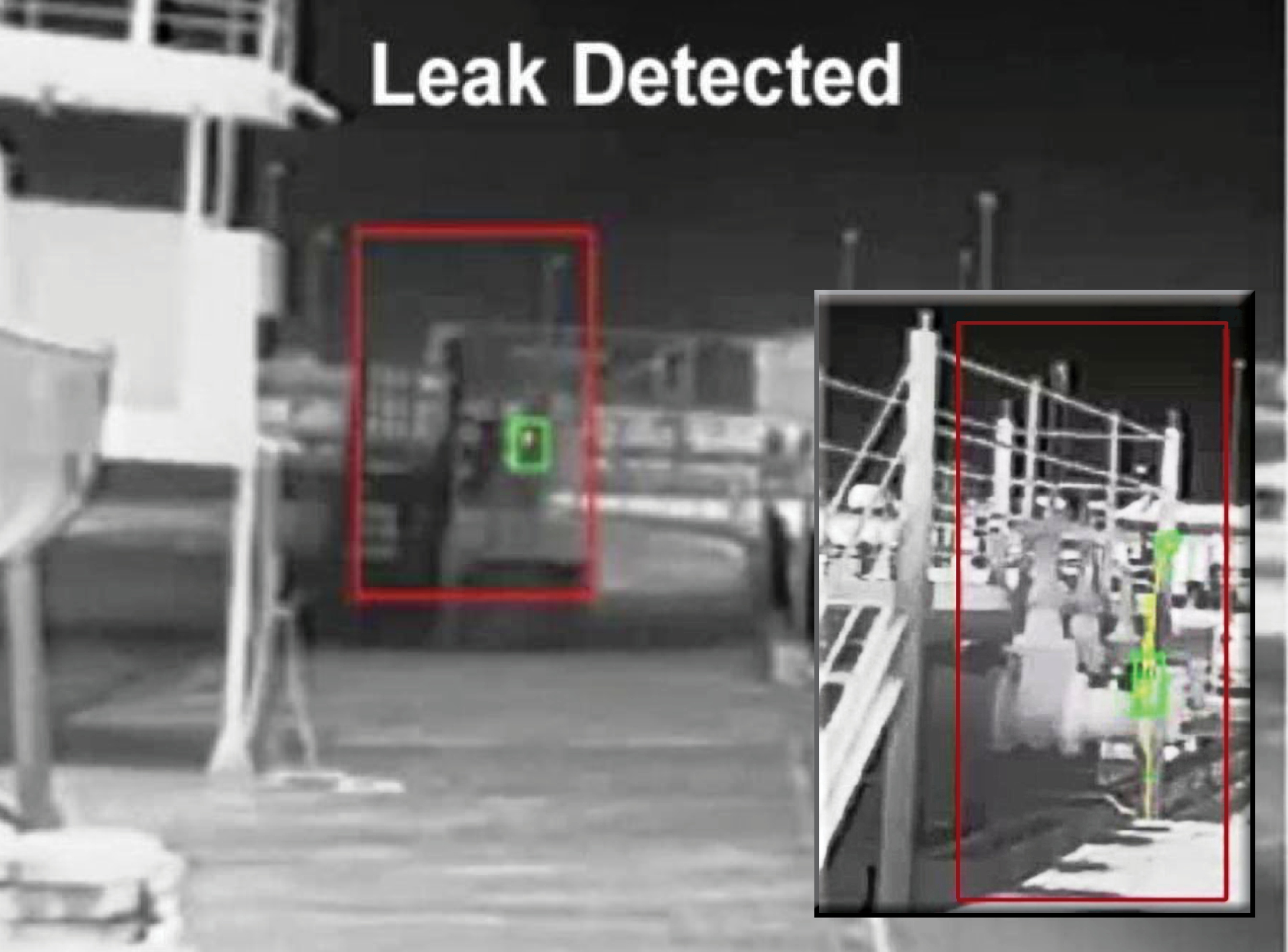 Oil leak from a flange detected at 150 feet and 50 feet distance in heavy rain using thermal imaging technology with proprietary video analytics software designed for liquid and wet gas leak detection